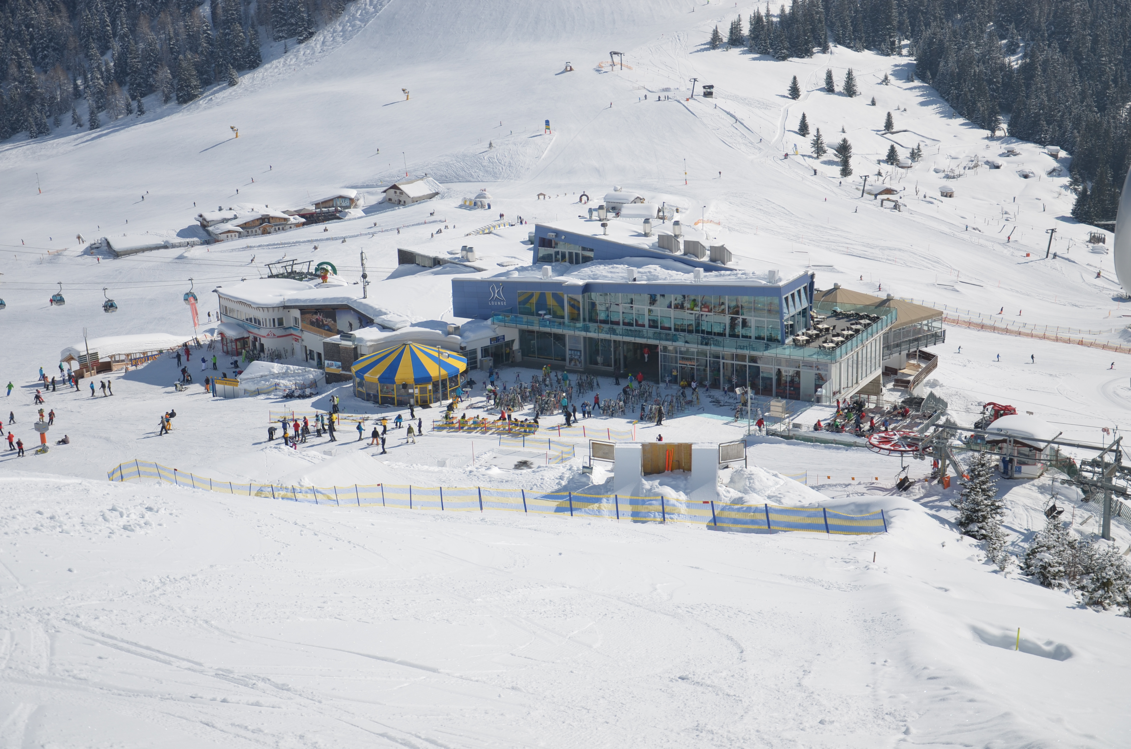 View down at the Komperdell from the Plansegg